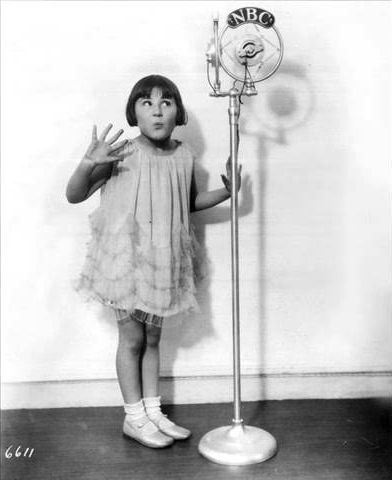 Photograph of Baby Rose Marie